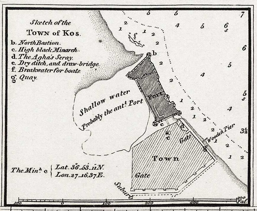 Detail from a map of the northeastern end of the island of Kos by the British Admiralty by Francis Beaufort; J. Walker. Created in 1819.